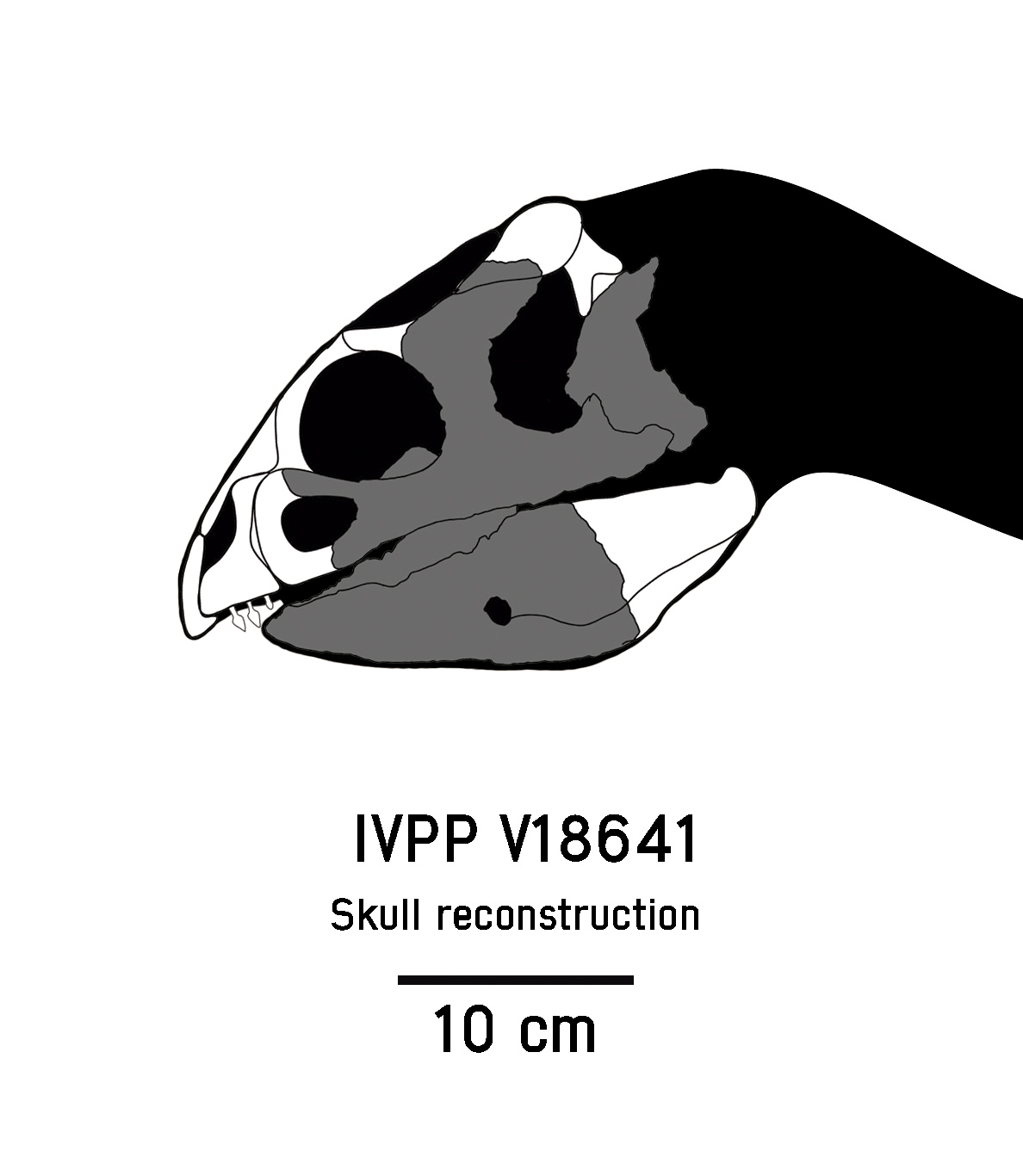 Hualianceratops holotype IVVP V18641, Skull reconstruction